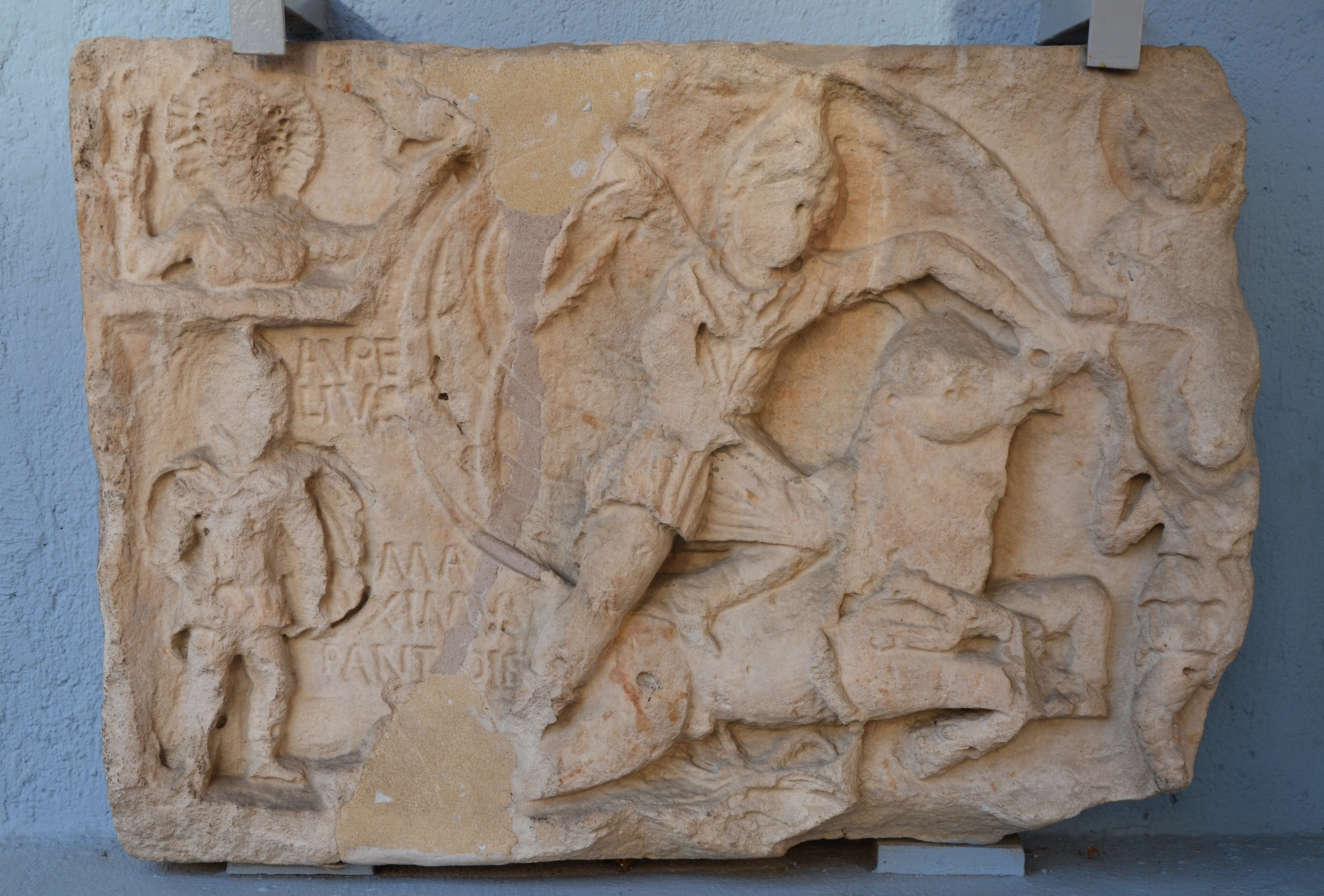 Inventory number: 123 - CIL 03, 10034